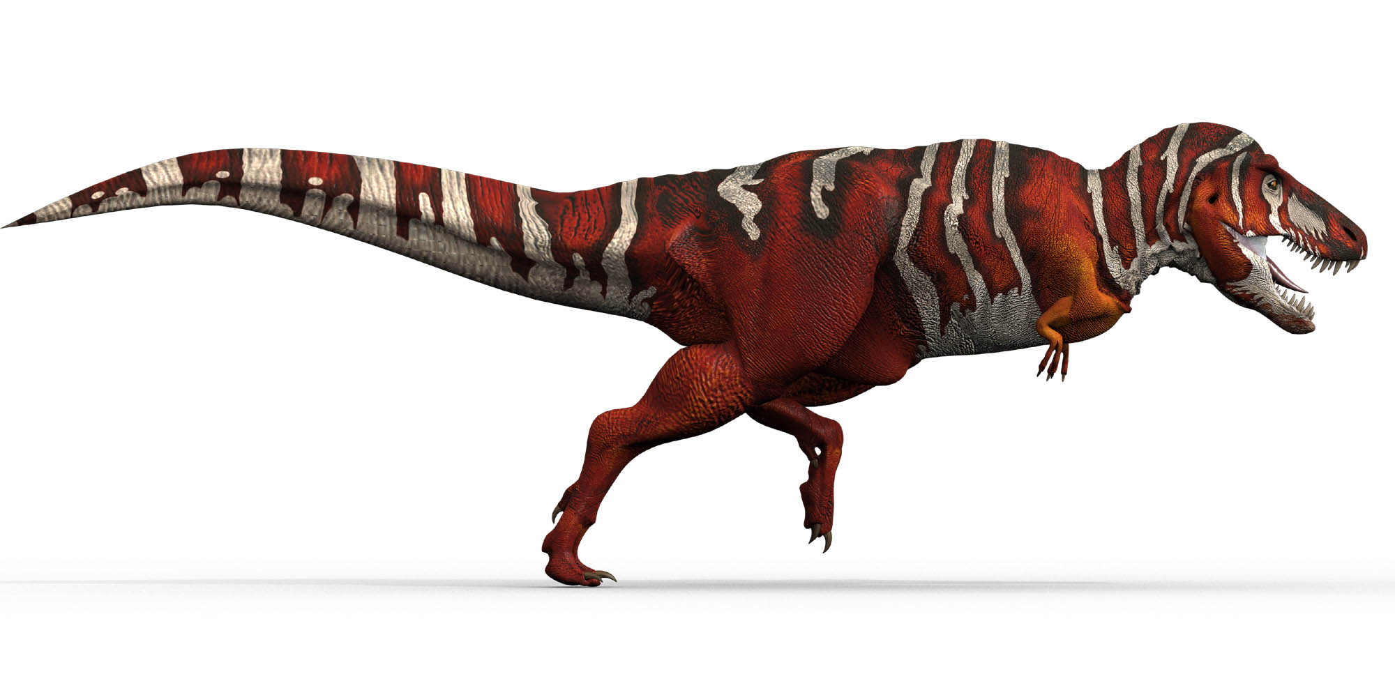 Trex side run profile (mouth gaping) based on FMNH PR2081 (Sue specimen)